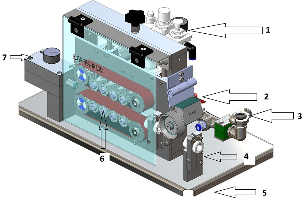 Schemat wdmuchiwarki